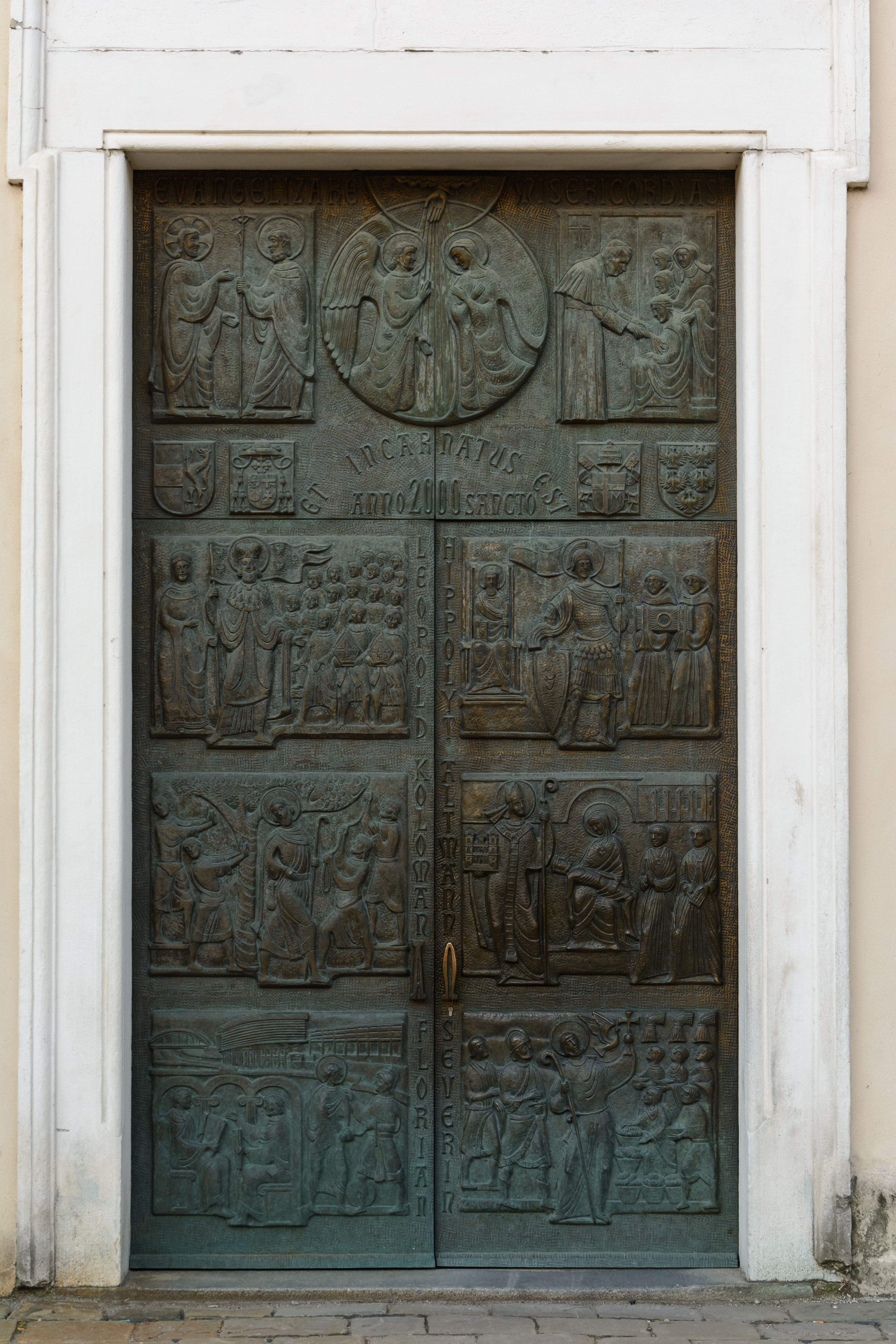 Bronze Portal of St. Pölten Cathedral (Lower Austria) by Prof. Jakob Kopp (2000)